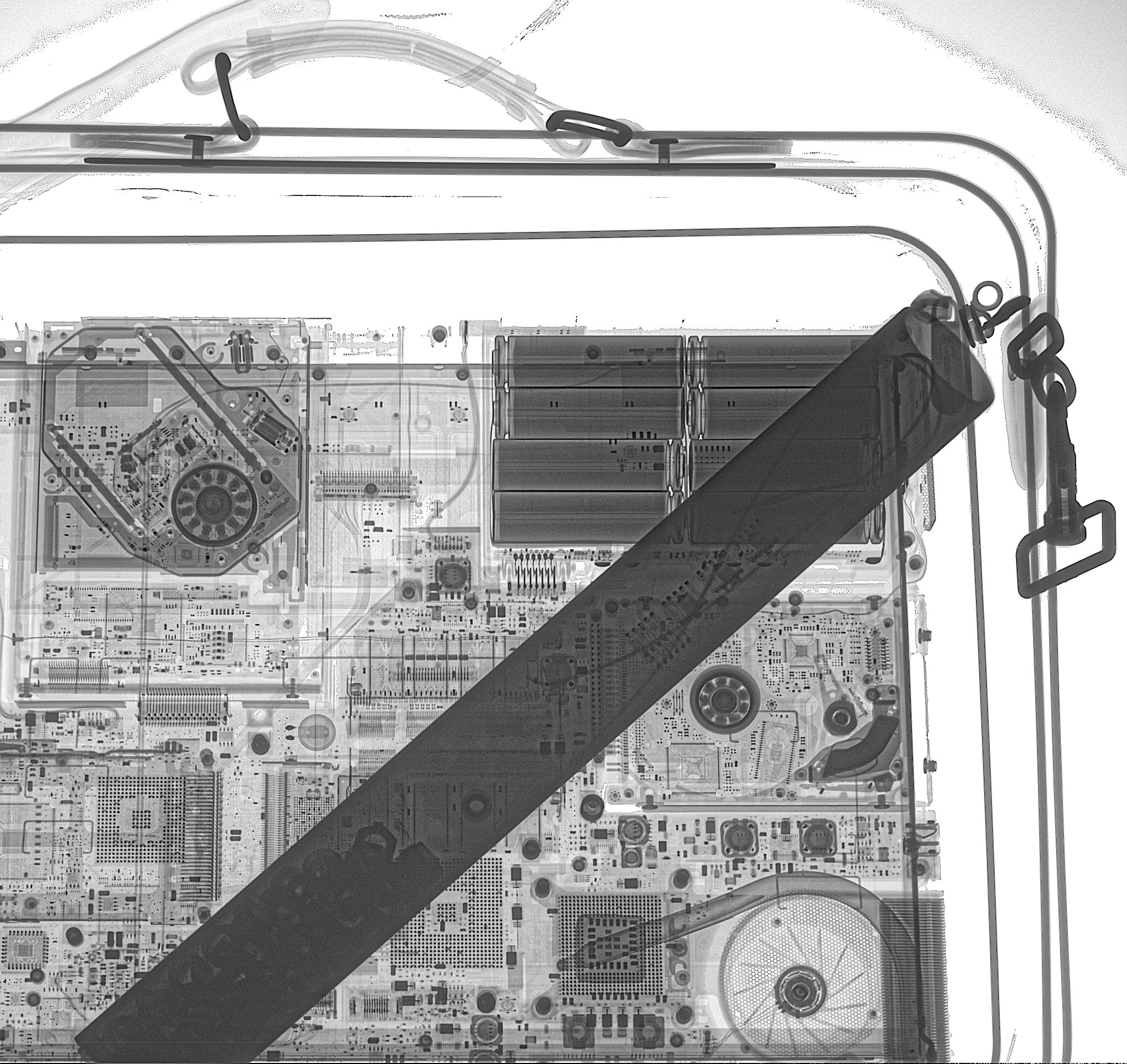 Radiography of a Laptop with a pipebomb in a briefcase